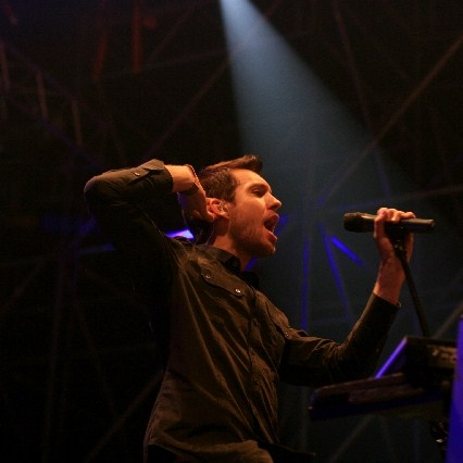 Calvin Harris